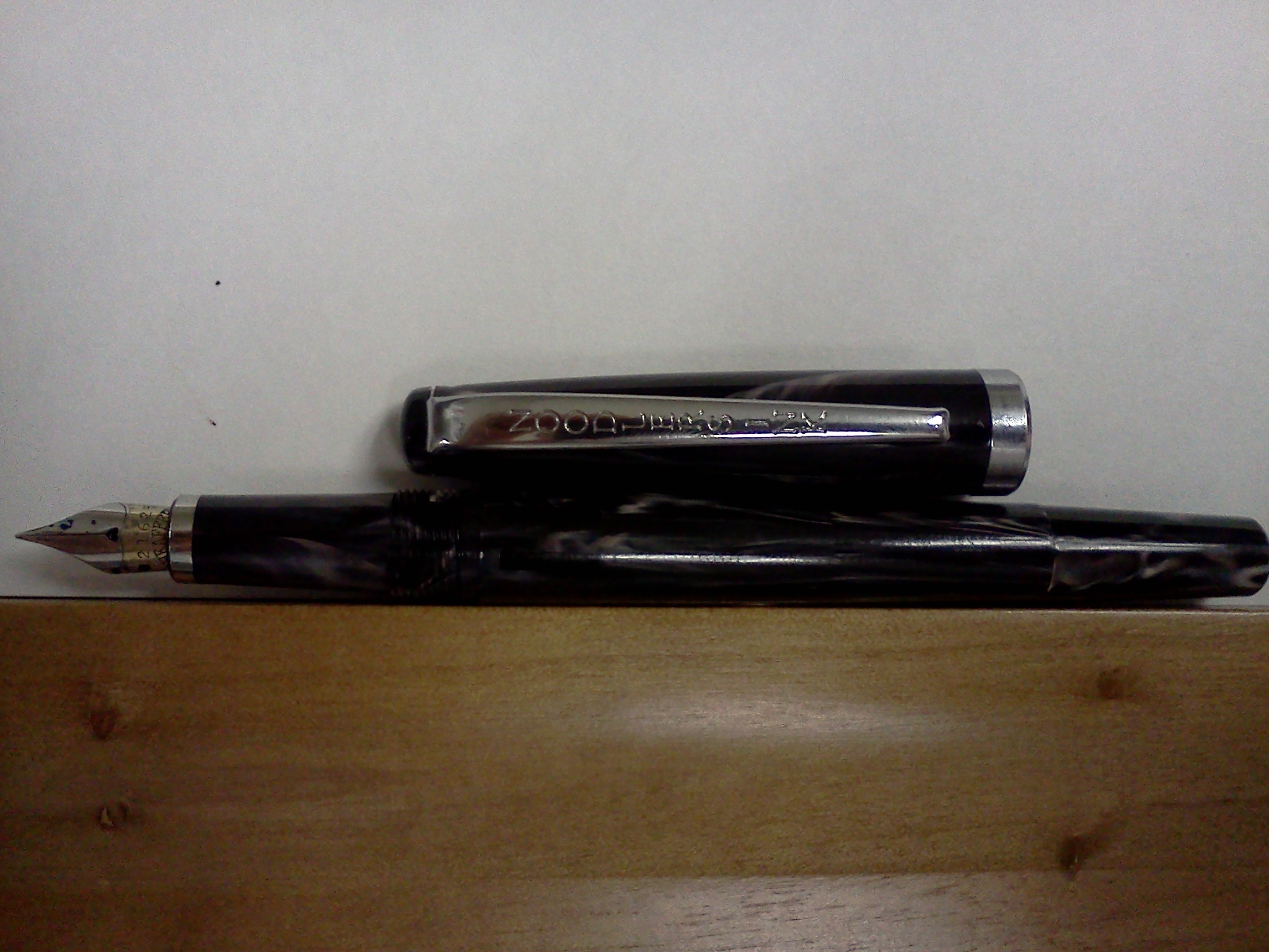 Modern Piston Fill Fountain Pen with a Vintage Nib